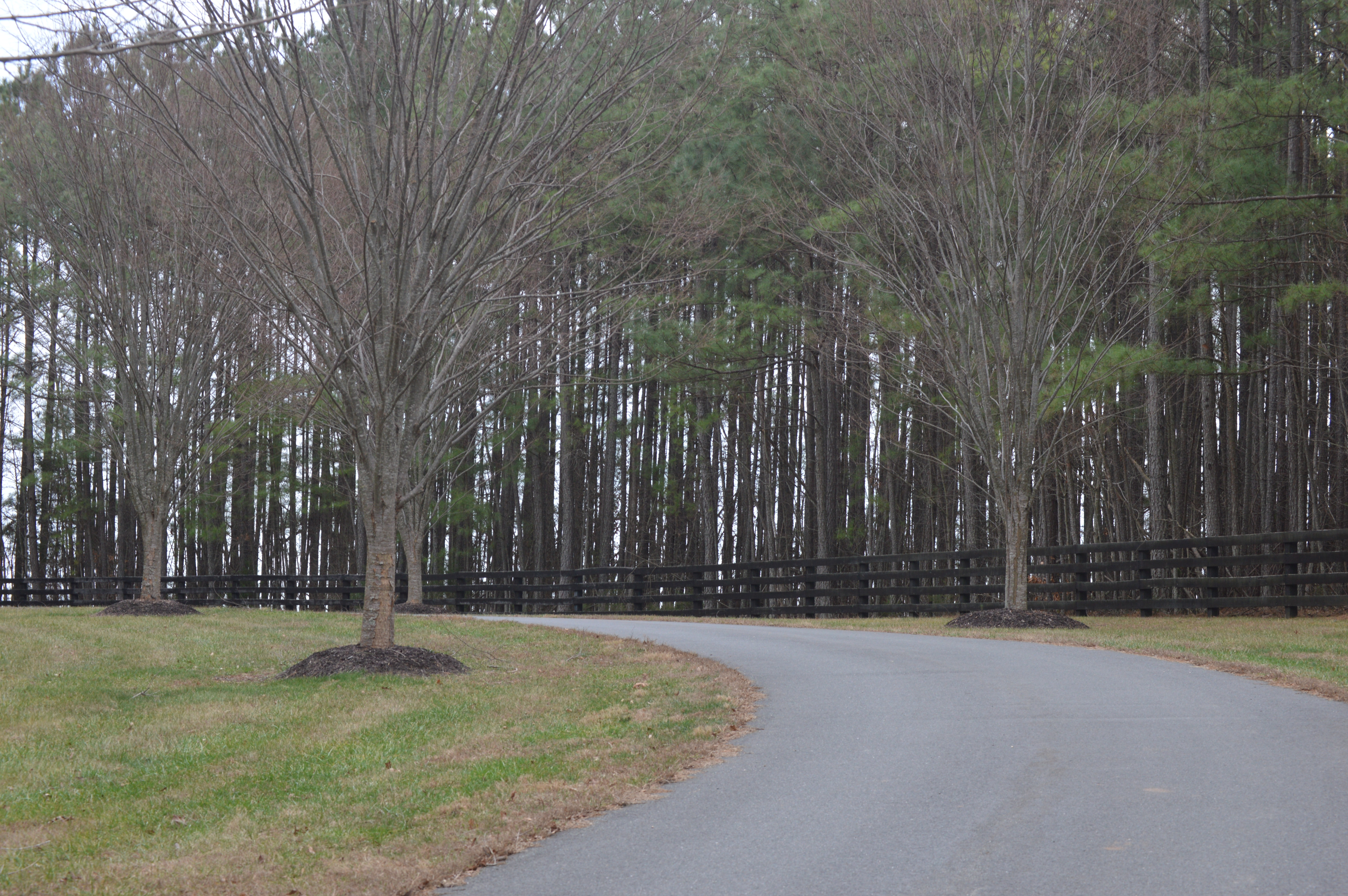 A driveway entrance on Blenheim Road north of Scottsville in Albemarle County, Virginia, United States. This is the main entrance to Mount Ida Farm, which is listed on the National Register of Historic Places.